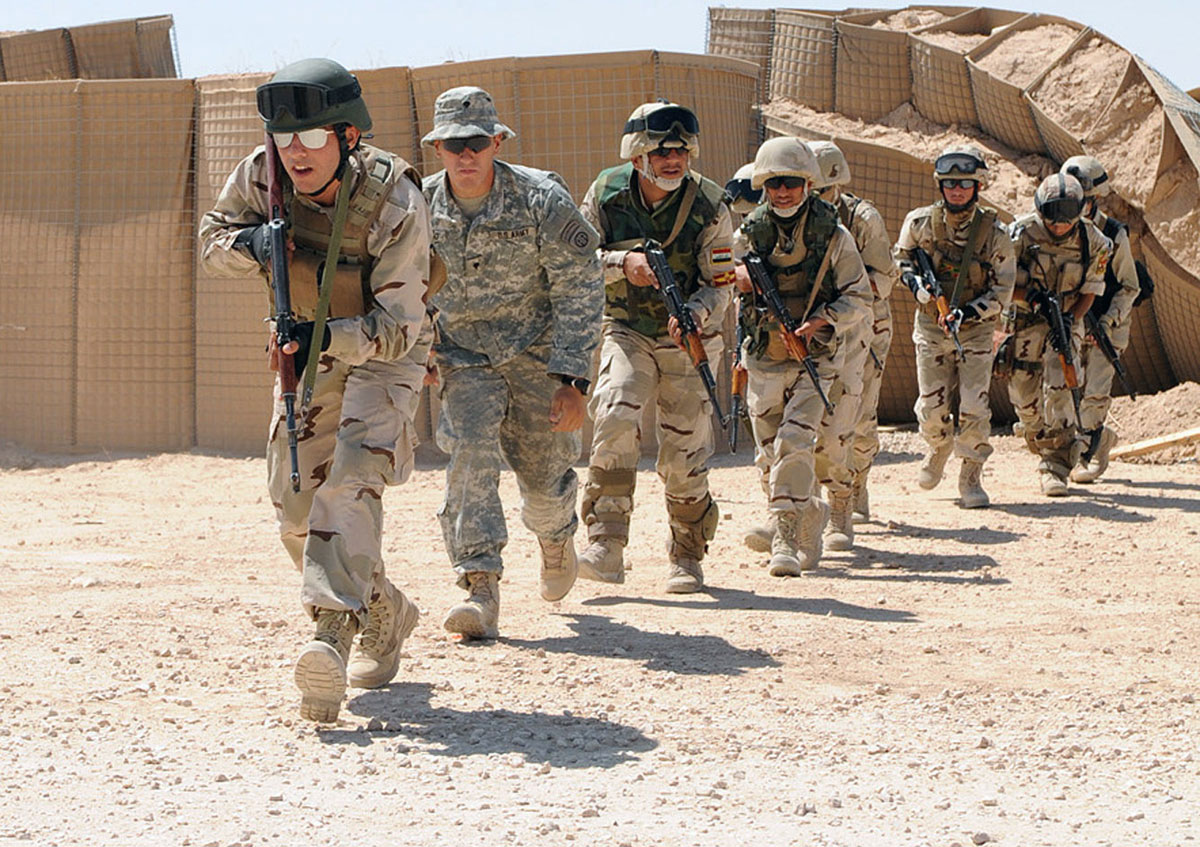 Members of the 7th Iraqi Army Division's Commando Battalion hone air assault techniques under the eye of U.S. Soldiers of the 504th Parachute Infantry Regiment, 1st Advise and Assist Brigade, 82nd Airborne Division, on Camp Kassum, Baghdad, June 22, 2010.